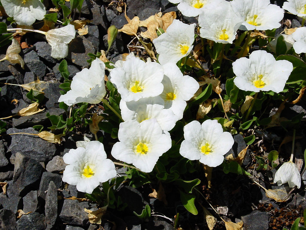 Nierembergia repens (Whitecup) in the botanic garden in Christchurch, New Zealand. Cropped version without sign.